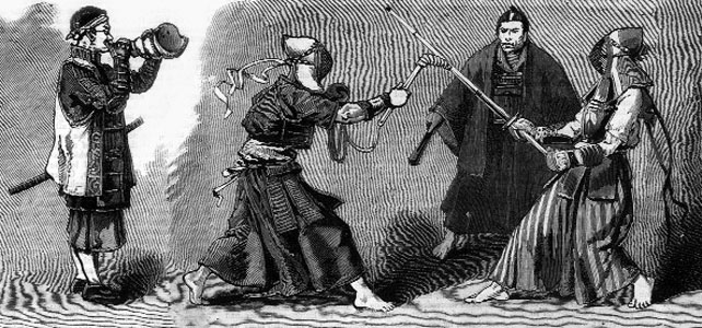 Fencing, drawing by Charles Edwin Fripp